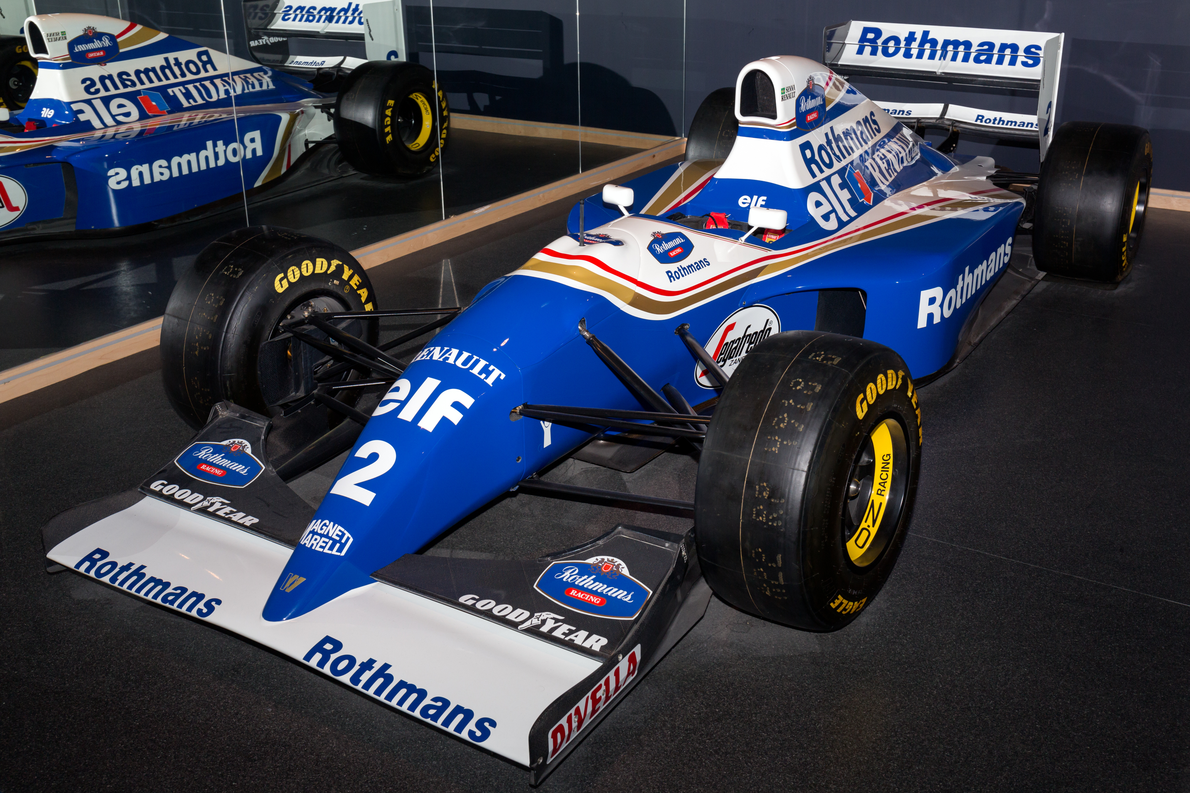 Williams Conference Centre (Grove): Williams FW15D (chassis No.11) of Ayrton Senna, driving during the 1994 pre-season test days only